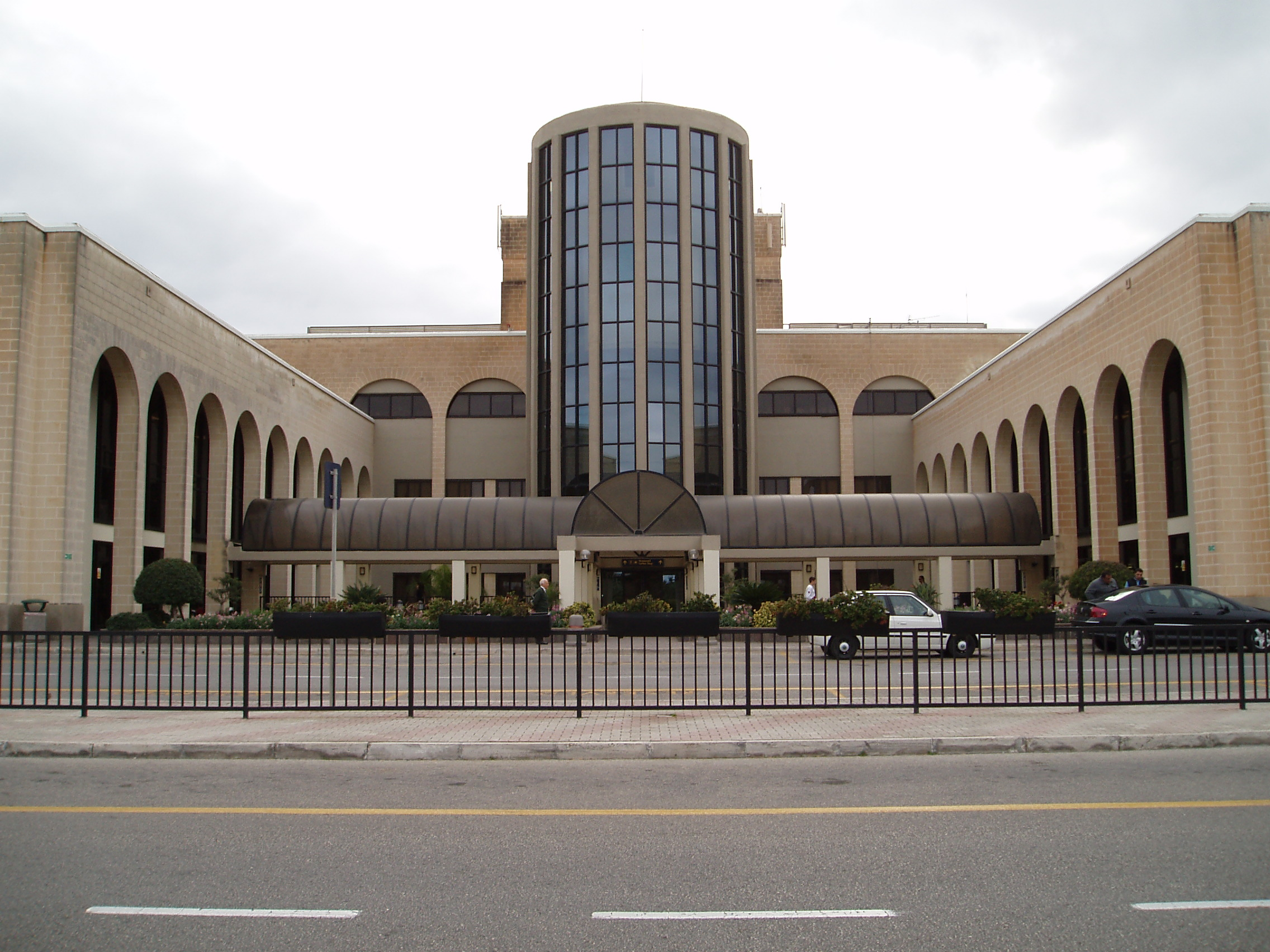 Entrance to the Malta International Airport.